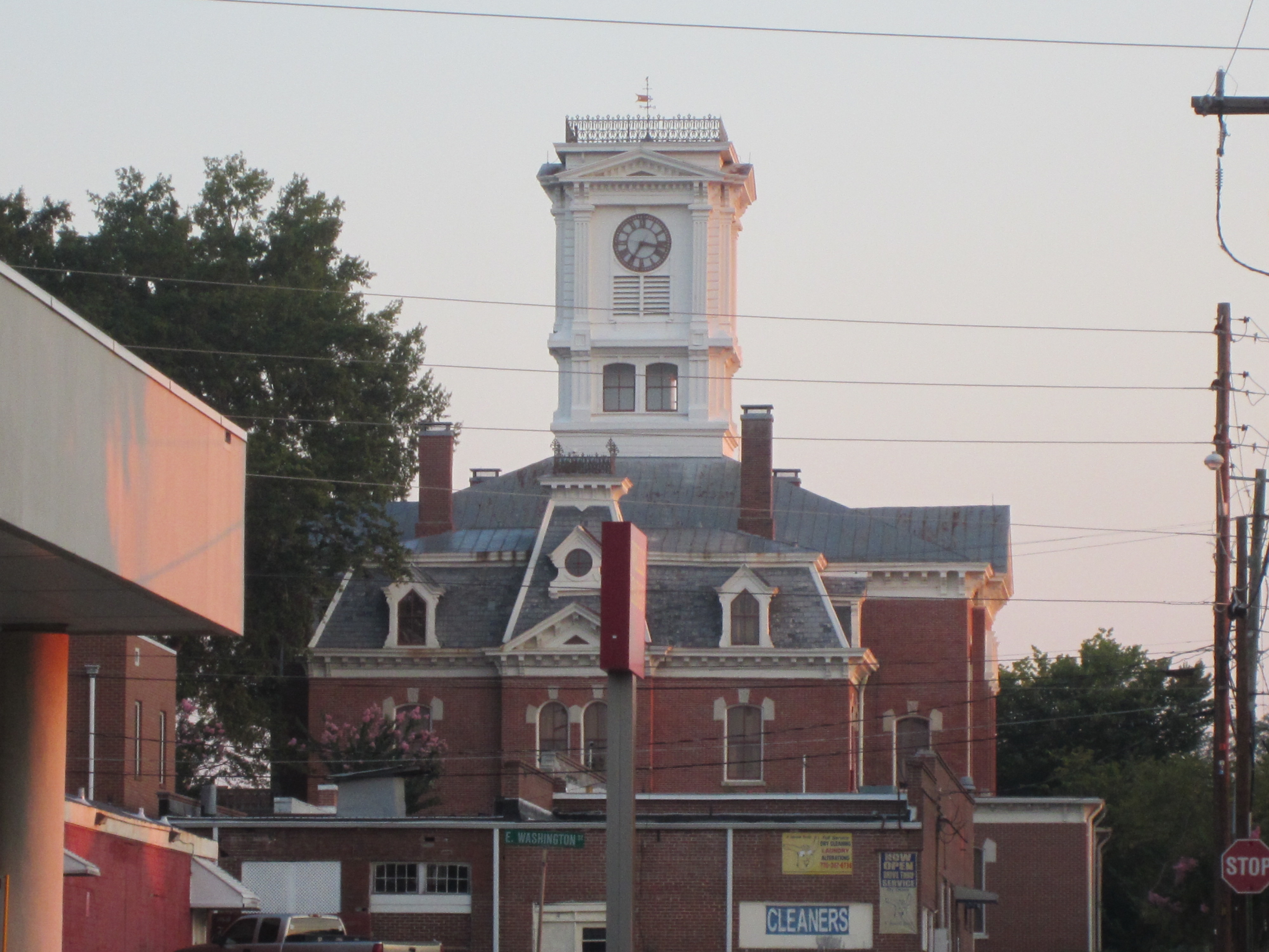 Walton County courthouse